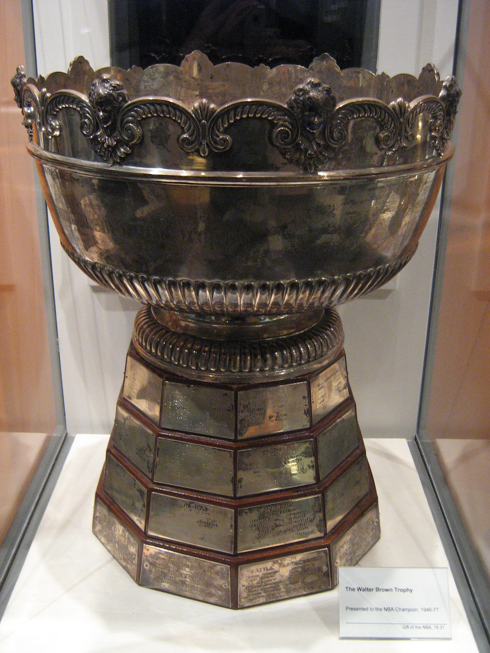 Walter A. Brown Trophy located at the Basketball Hall of Fame